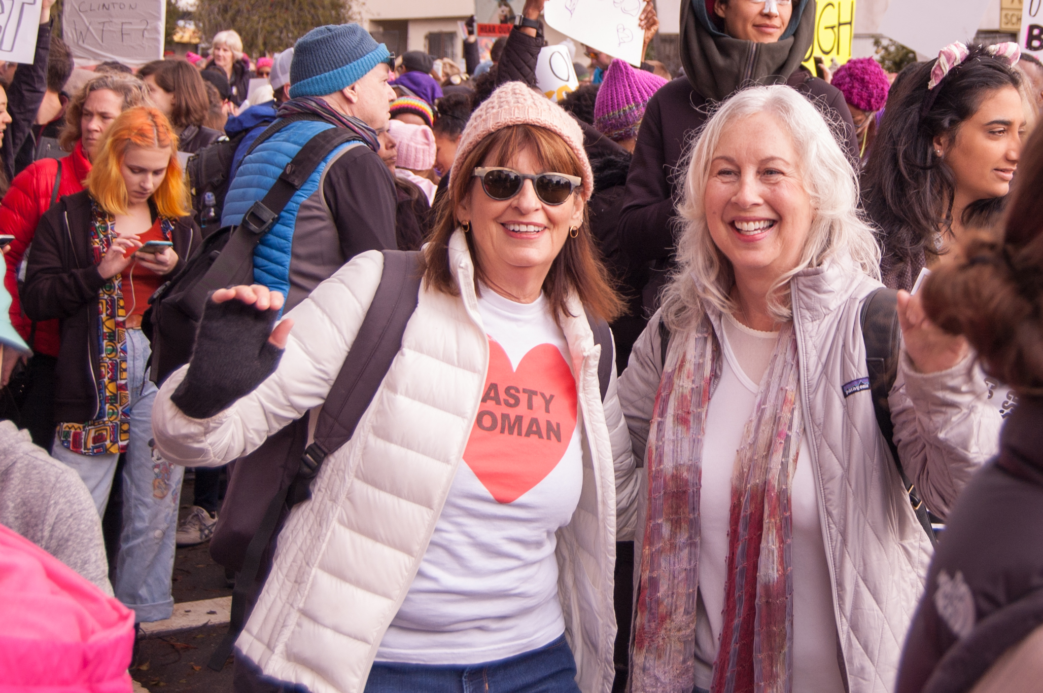 Women's March-1634